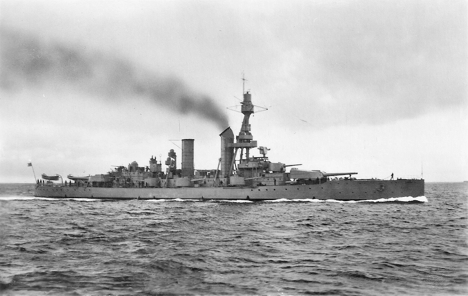 Swedish coastal defence ship HMS Drottning Victoria under way. The forward funnel got its extra bend in 1931 so the picture must have been taken after that year.